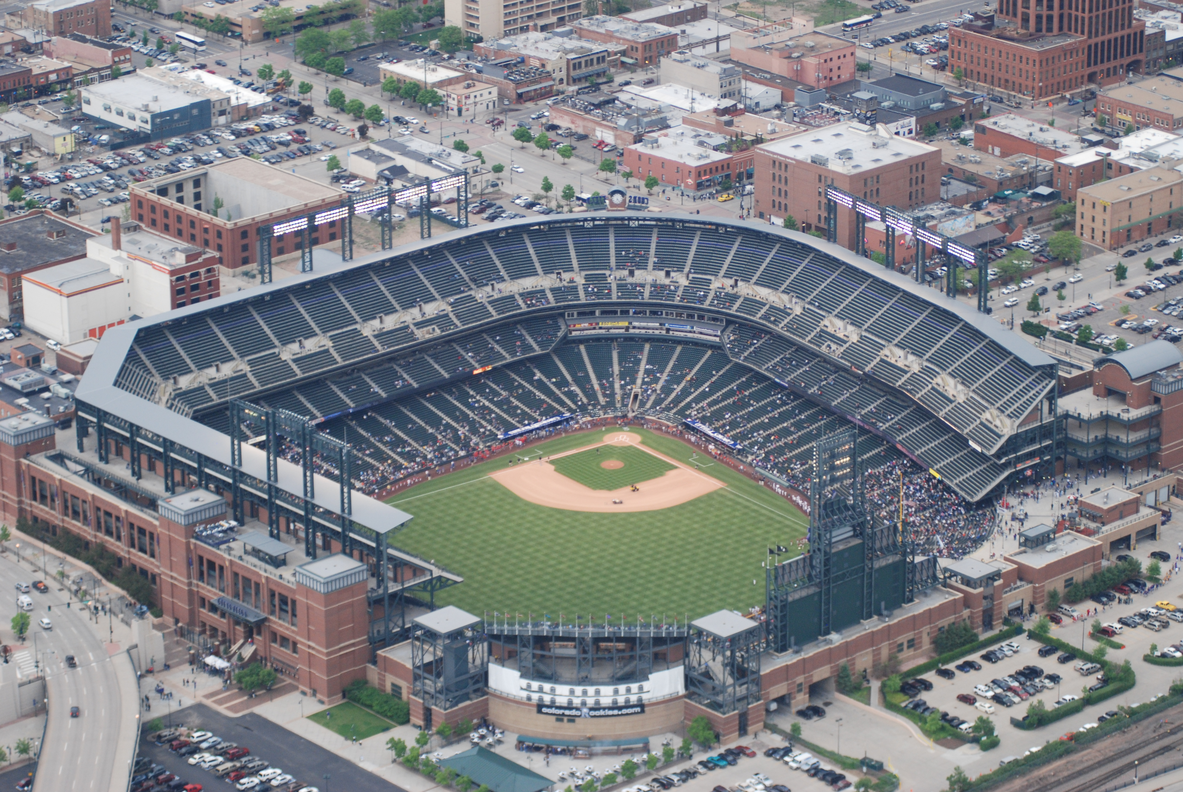 Coors Field in Denver, Colorado (baseball, aerial)